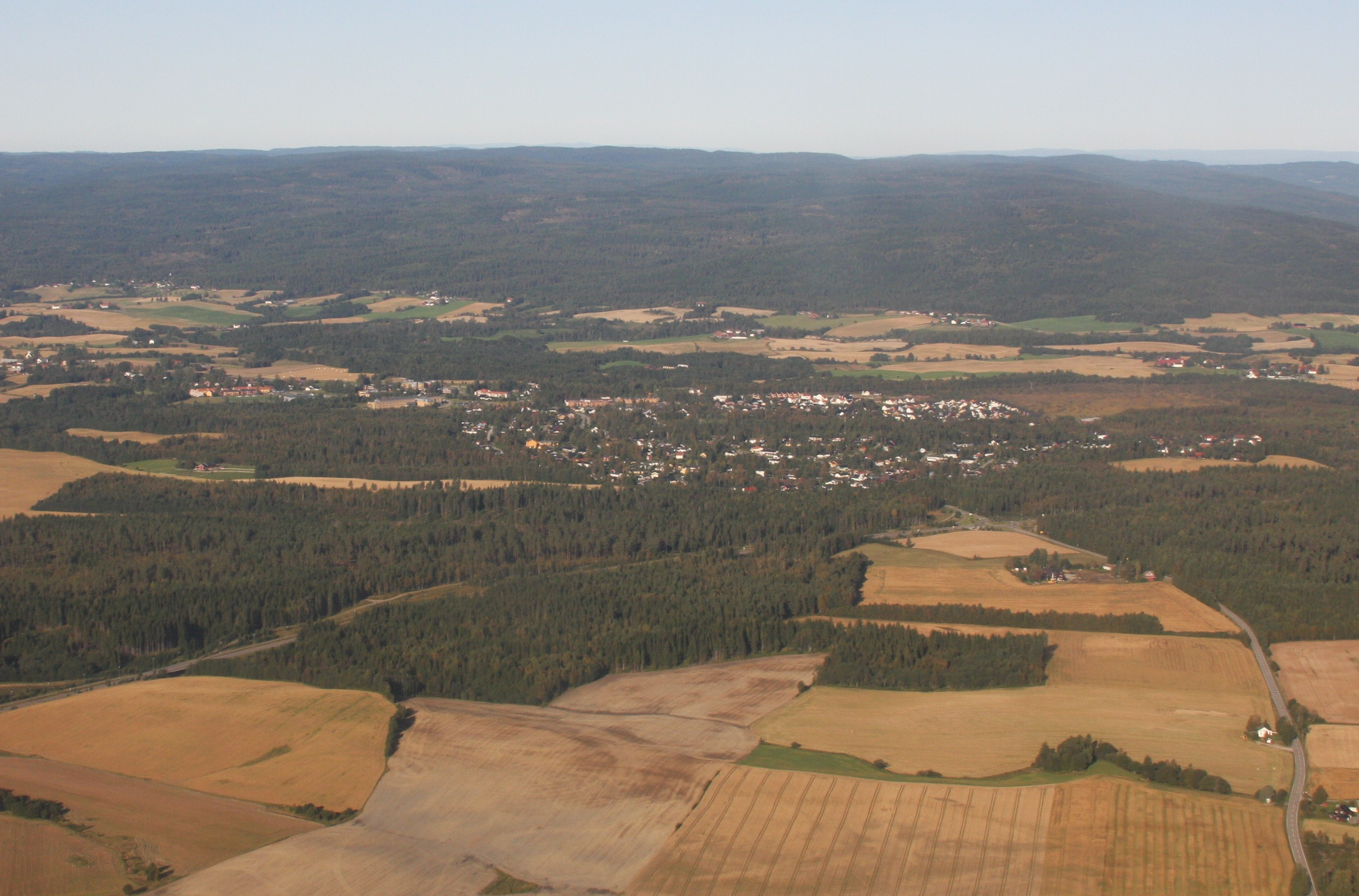 Teigebyen seen from the air, close to Gardermoen airport, Norway